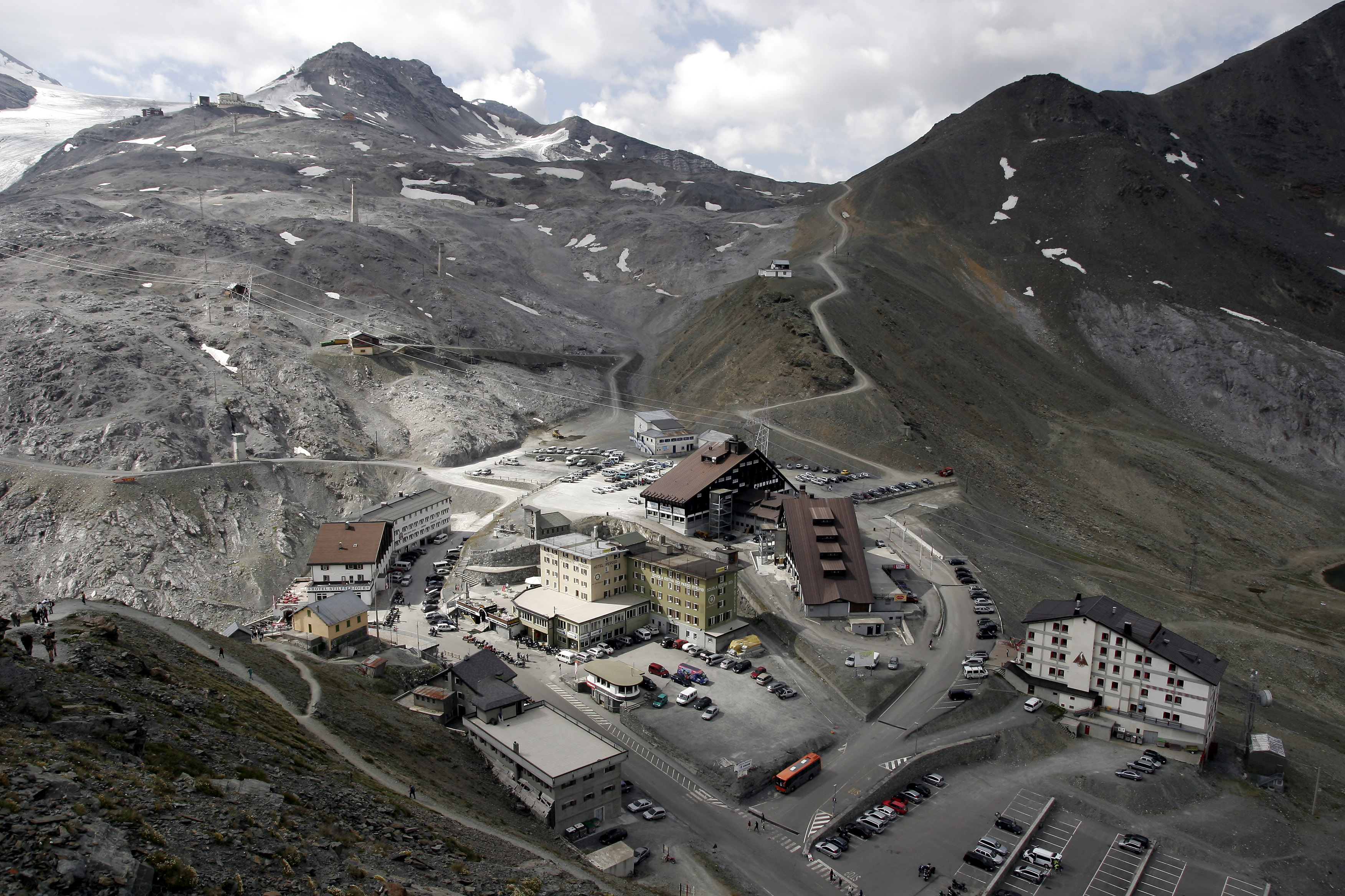 Stilfser Joch, South Tyrol